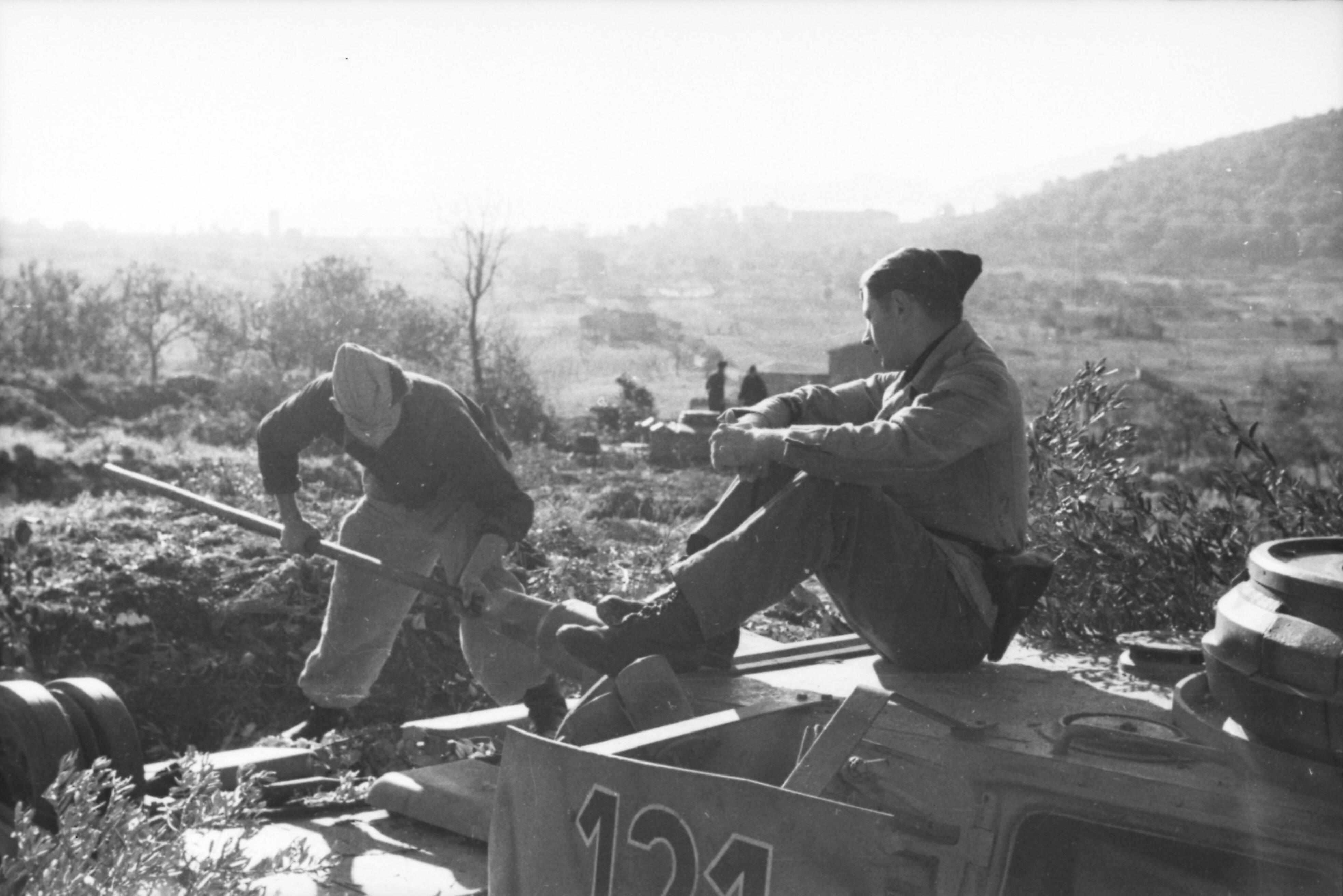 Information added by Wikimedia users.